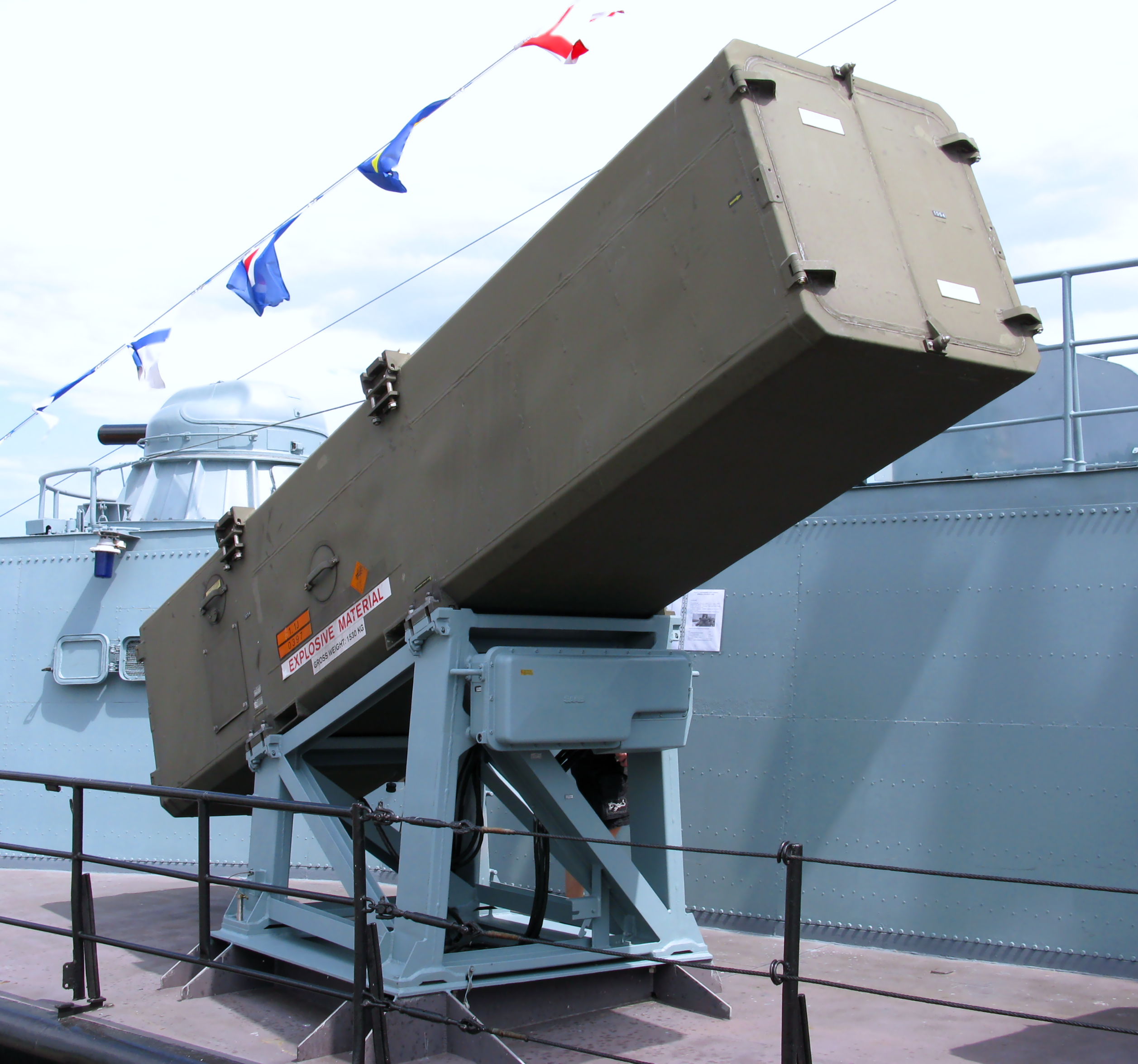 RBS 15 Mk II rocket container on Polish Corvette